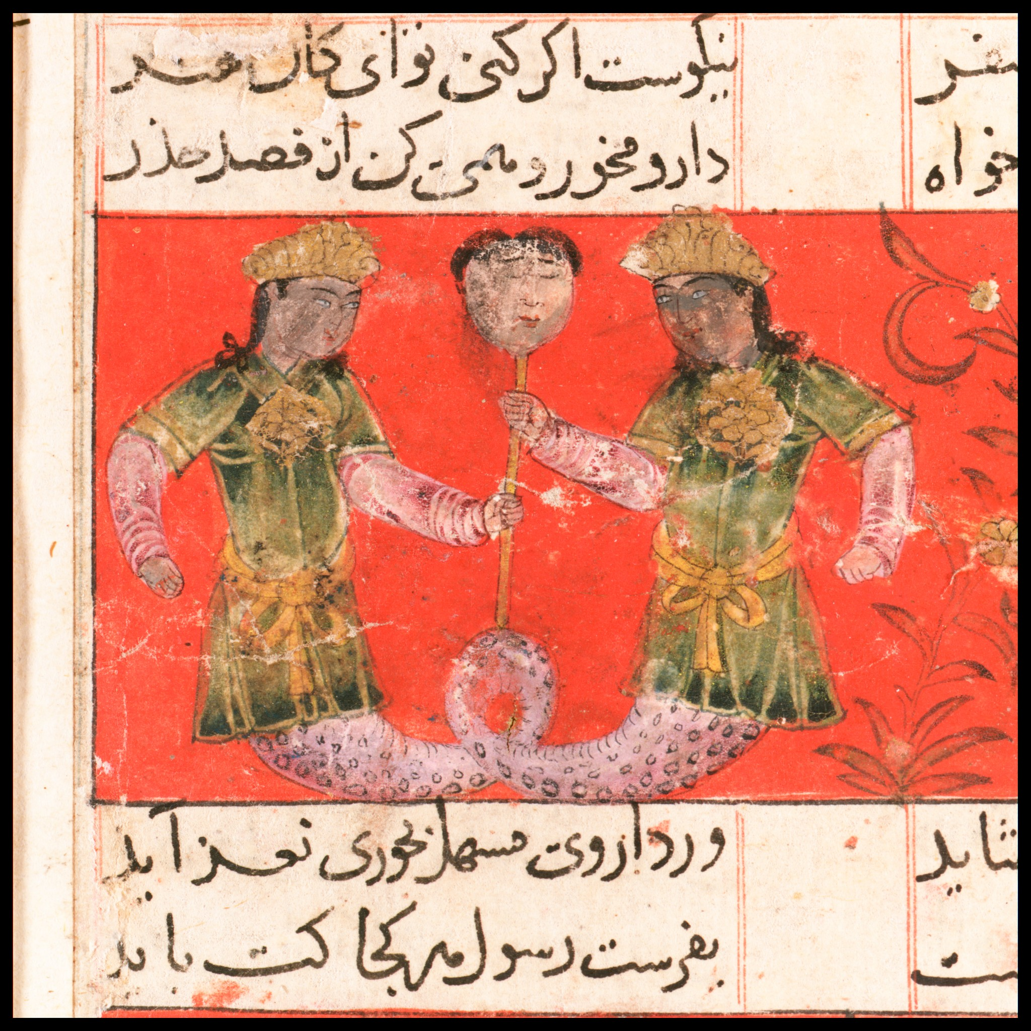 Folio from an illustrated manuscript; Codices